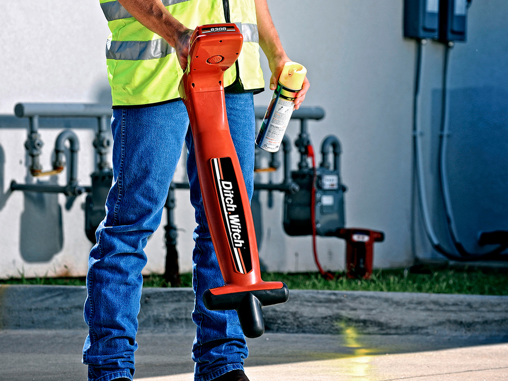 Image of a man using a utility locator